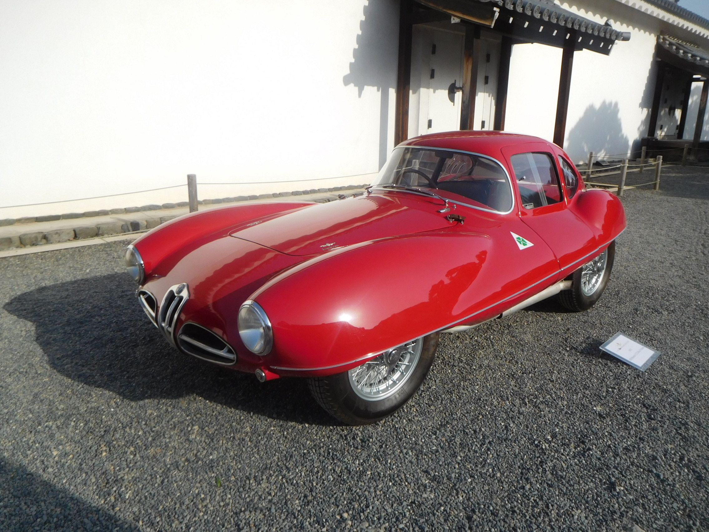 Alfa Romeo Disco Volante at the Concorso d'Eleganza Kyoto 2018, Nijō Castle, Kyoto.